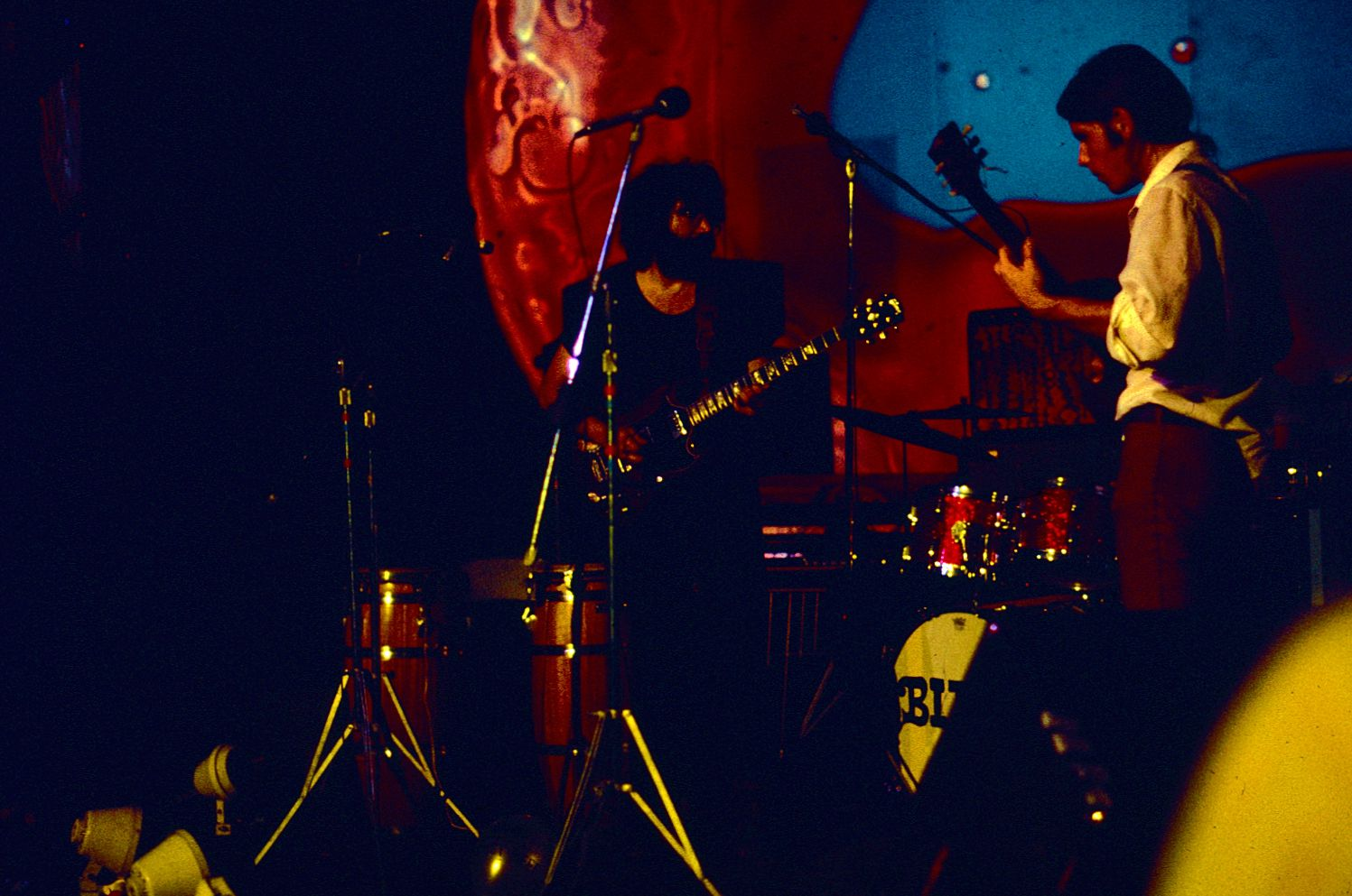 The Grateful Dead performing at the Kinetic Playground, a popular but short lived rock music venue in Chicago, in July 1969. The Playground's light show appears in the background.